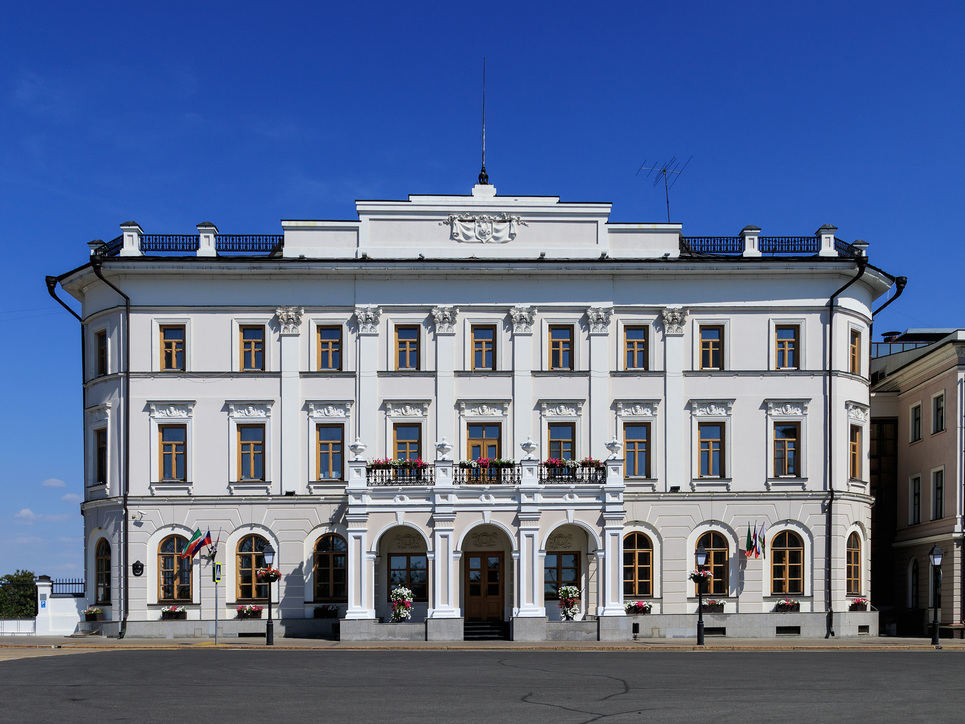 Town hall at Kremlyovskaya Street in Kazan, Russia